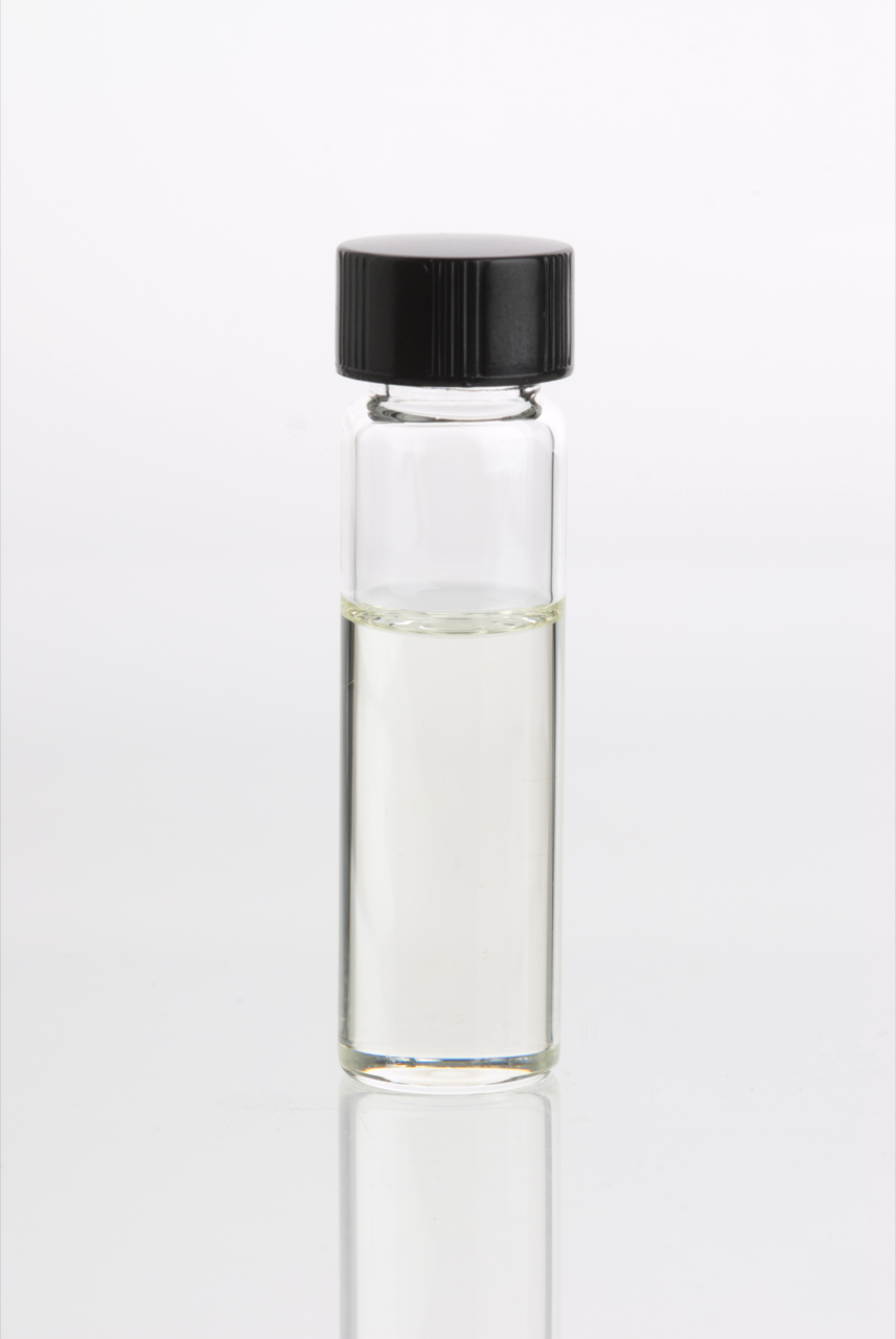 Glass vial containing Balsam Fir (North American) Essential Oil